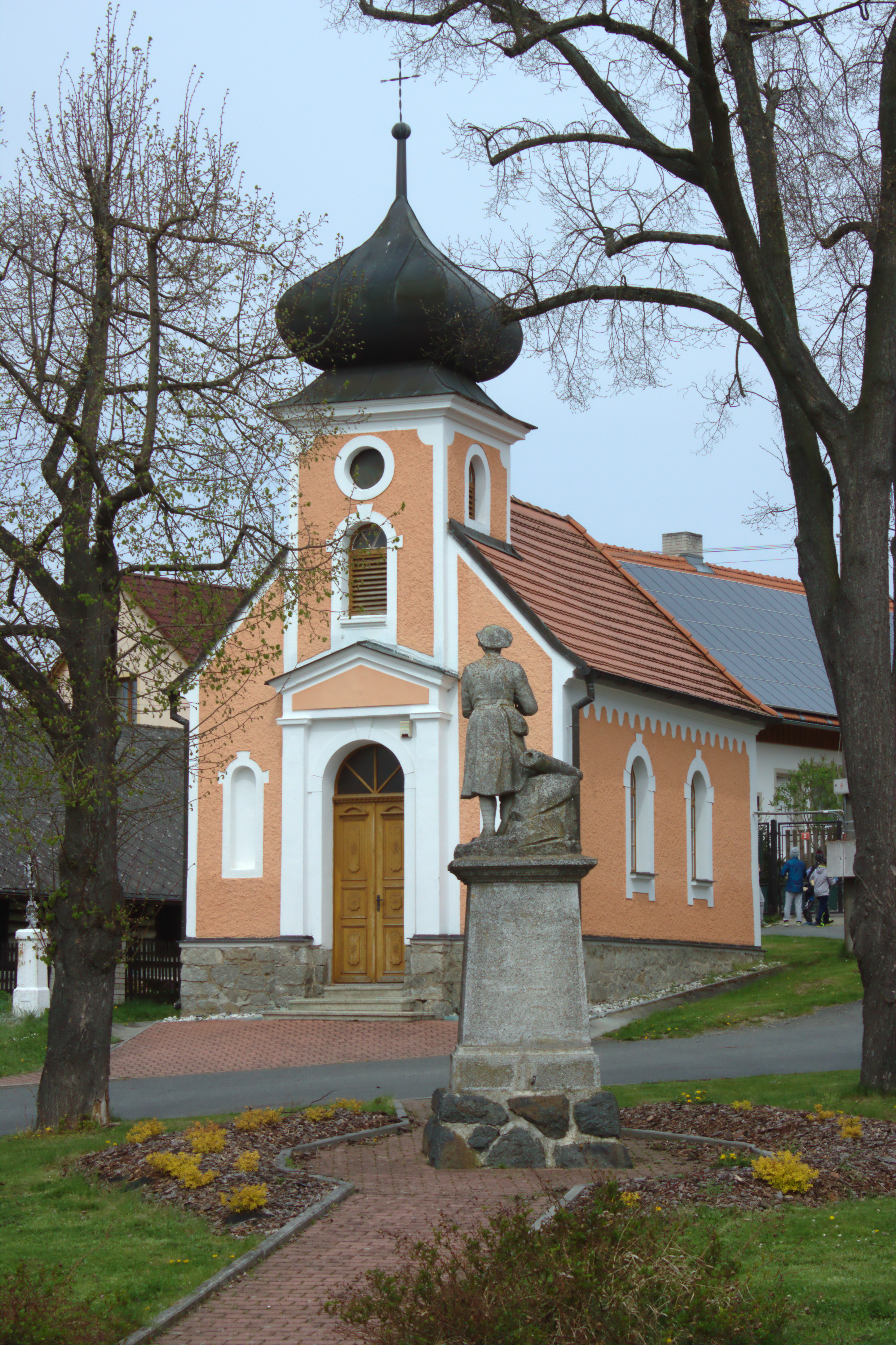 A church in the central part of the village of Hradiště, Plzeň Region, CZ